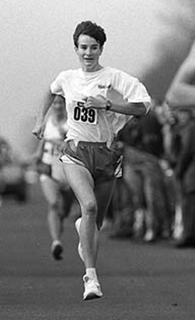 Wearing No. 39 is Olympic athlete Sonia O'Sullivan in the Oman Cup Race at the Phoenix Park in Dublin. Particularly good to start 2012 with this photo, as the Phoenix Park is 350 years old this year. Date: 1 January 1992 NLI Ref.: IND192-9[29]